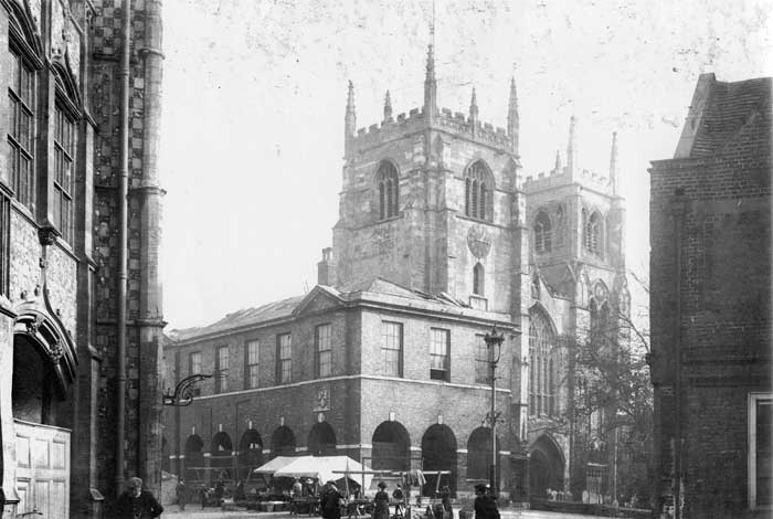 Kings Lynn shambles pre WW1